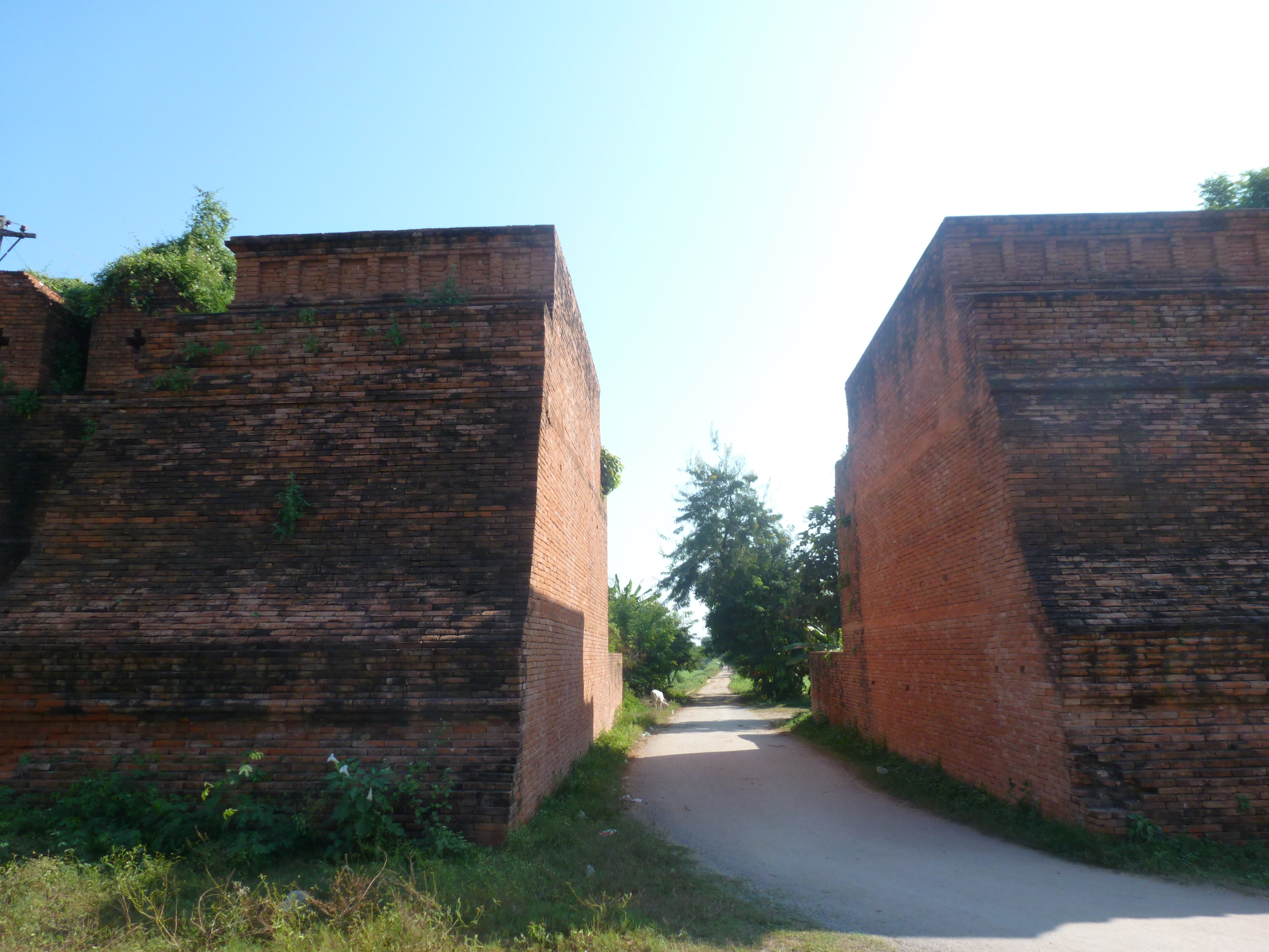 Second level outer walls at Ava.